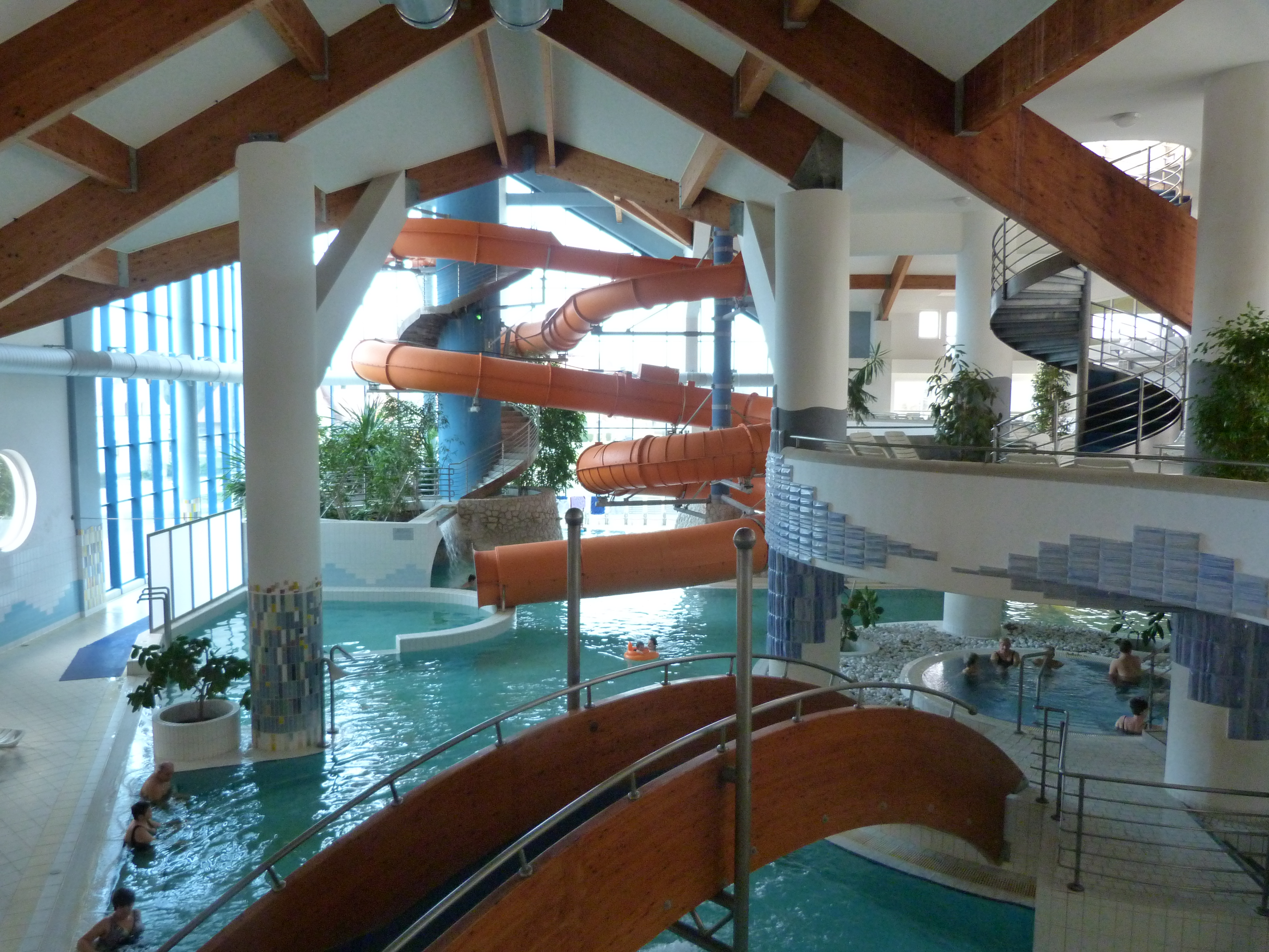 Taken on the 8th of March, 2016. Kehidakustány, Hungary.